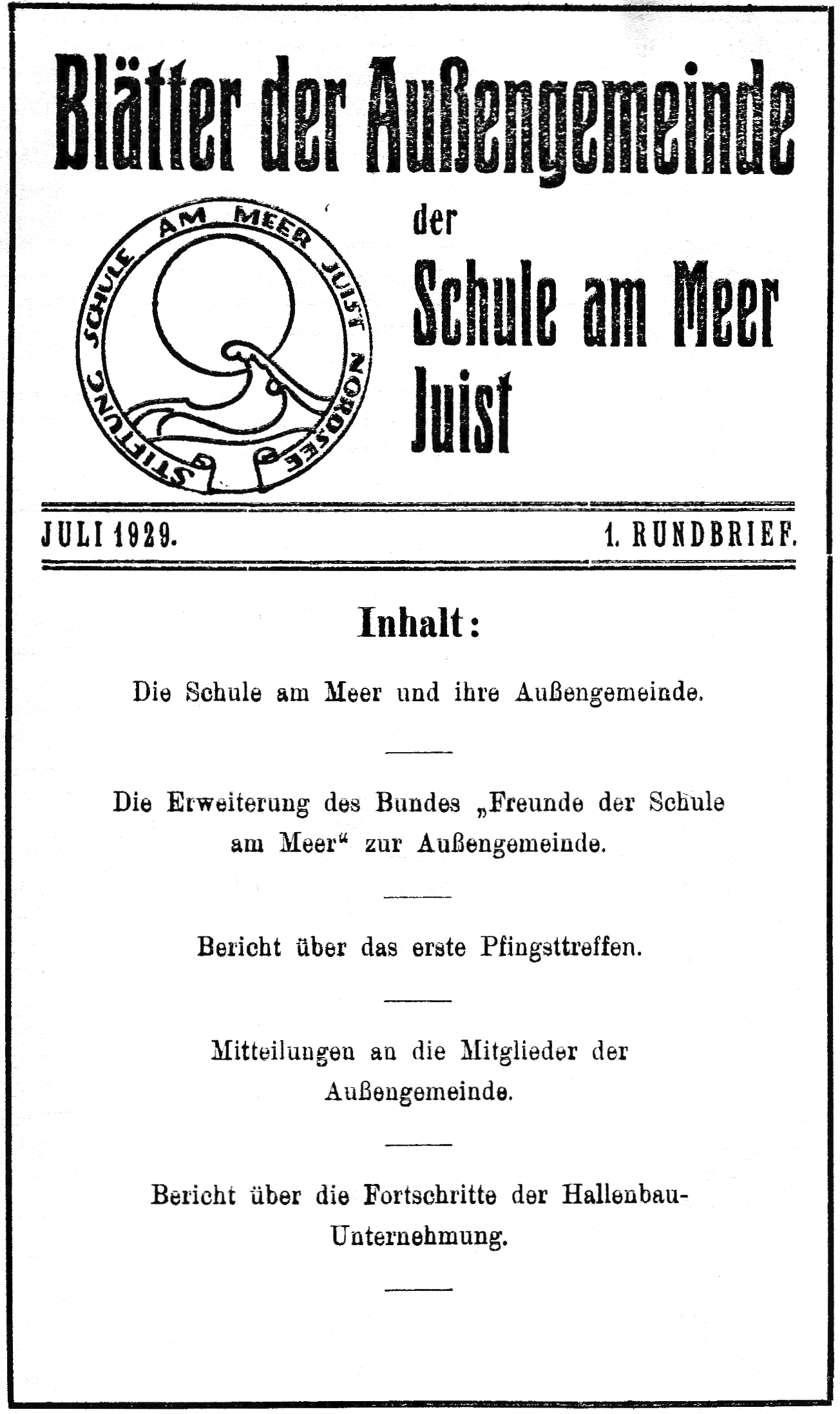 The periodical Blätter der Außengemeinde of Schule am Meer on Juist Island was meant to inform parents, former pupils, sponsors and the school's regional representatives in Germany, Austria and Switzerland